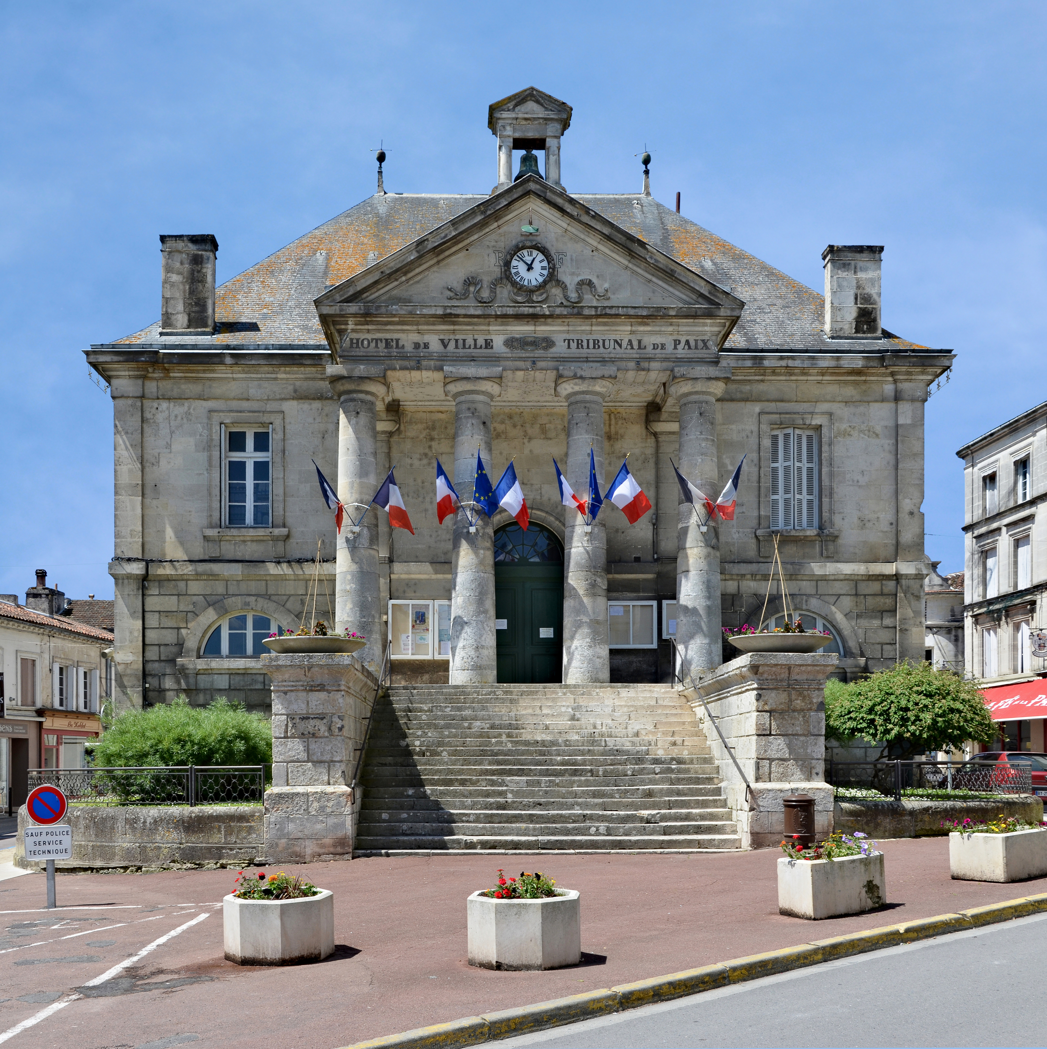 Town hall (1852) of Châteauneuf-sur-Charente, France. .